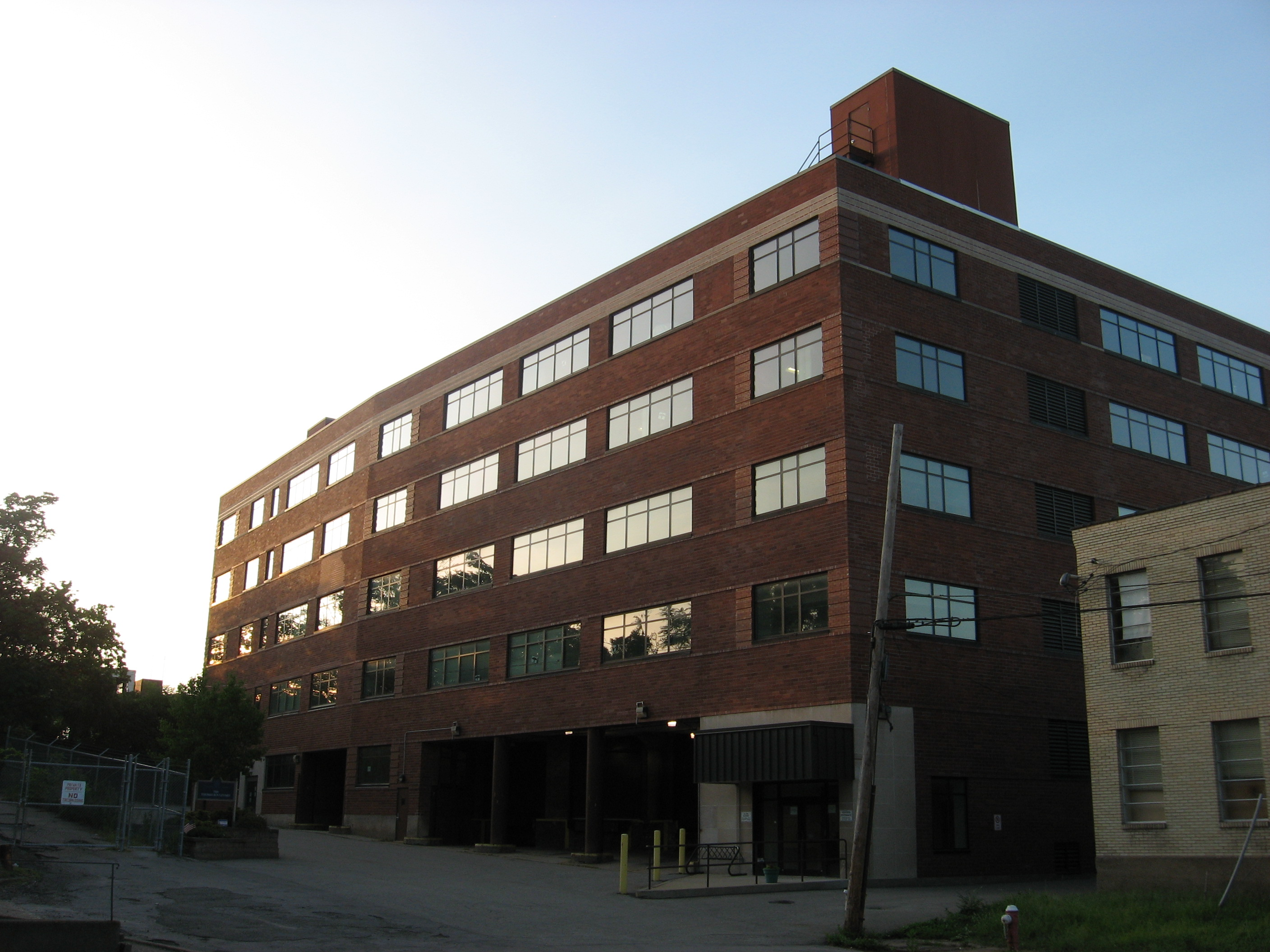 The Library Resource Facility, part of the University Library System of the University of Pittsburgh 40°26′59.5″N 79°53′42.6″W / 40.449861°N 79.895167°W